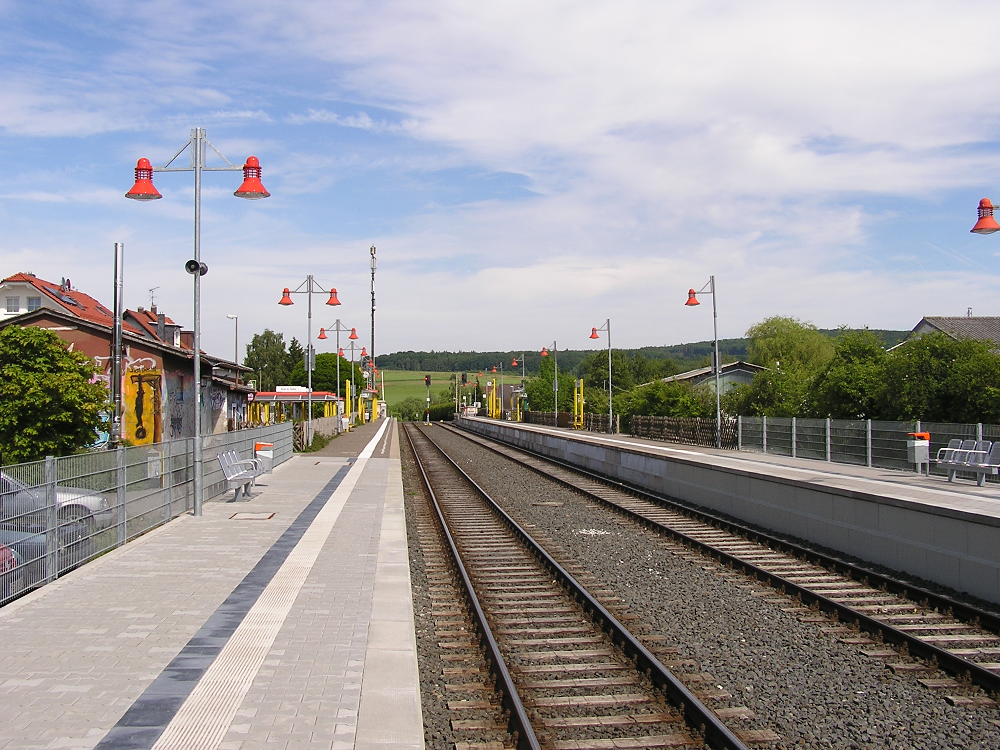 Station Wehrheim at the Taunusbahn